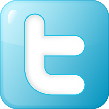 Icon used for social media links